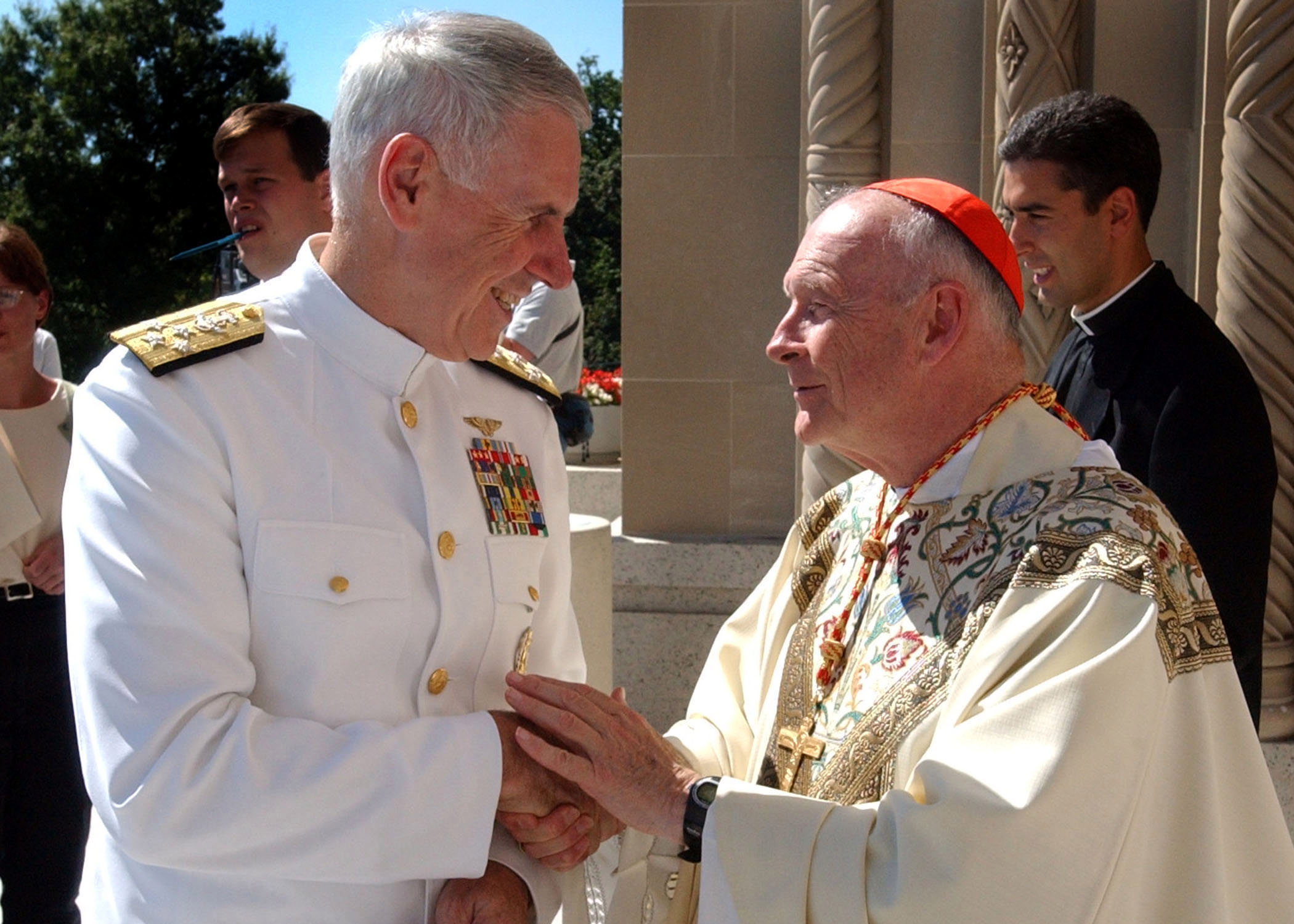 Washington, D.C. (Sept. 16, 2001) -- Admiral William Fallon, Vice Chief of Naval Operations, greets His Eminence Theodore Cardinal McCarrick, Archbishop of Washington, following a Sept. 16 morning service held in the "Basilica of The National Shrine of the Immaculate Conception." This was the first Sunday Mass held following the Sept. 11 terrorist attacks on the World Trade Center in New York City, and the Pentagon in Arlington, Va. U.S. Navy photo by Photographer's Mate 1st Class Michael W. Pendergrass. (RELEASED)